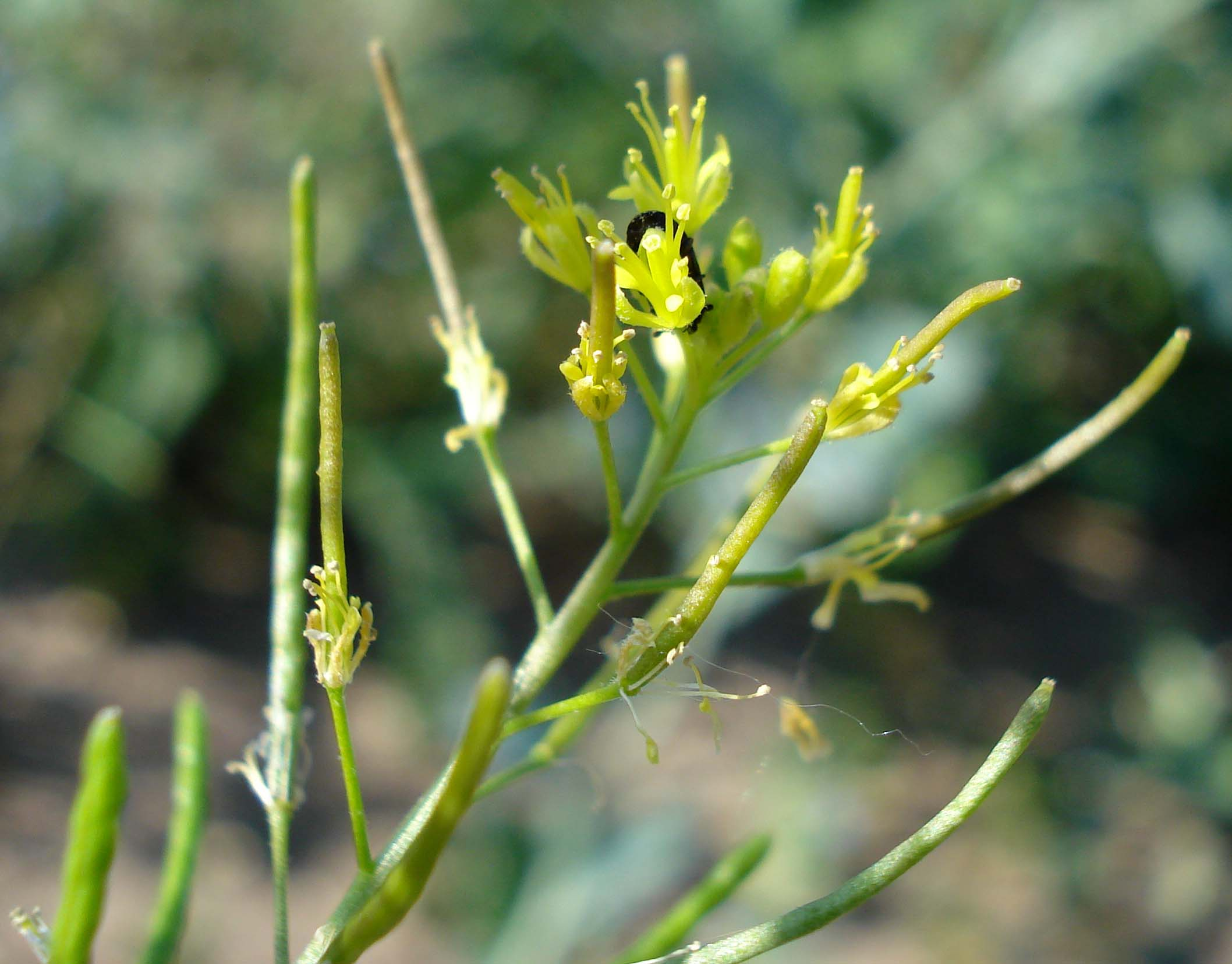 Descurainia sophia (Unterfranken, Germany)